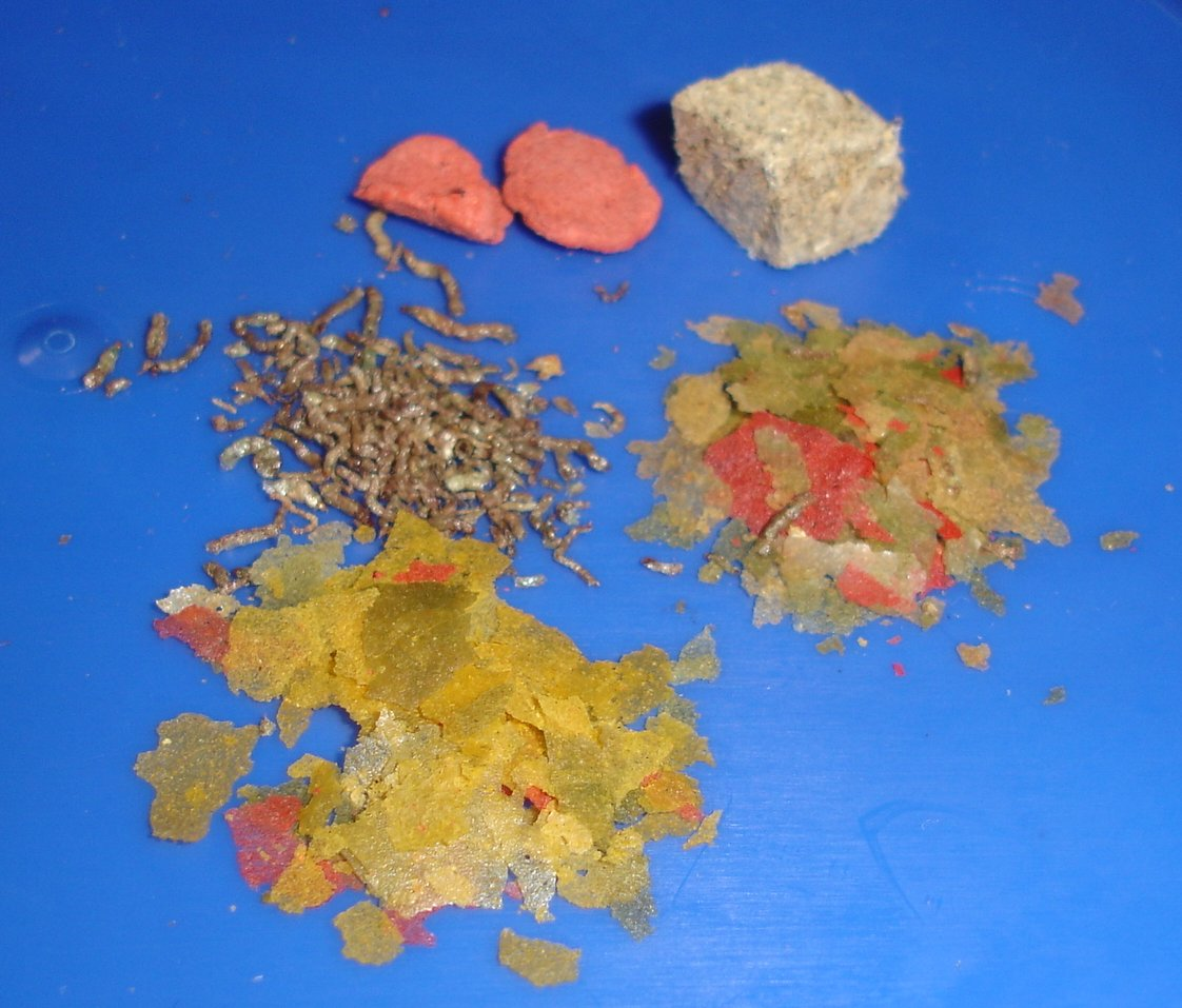 Aquarium - Dried foods for fishes